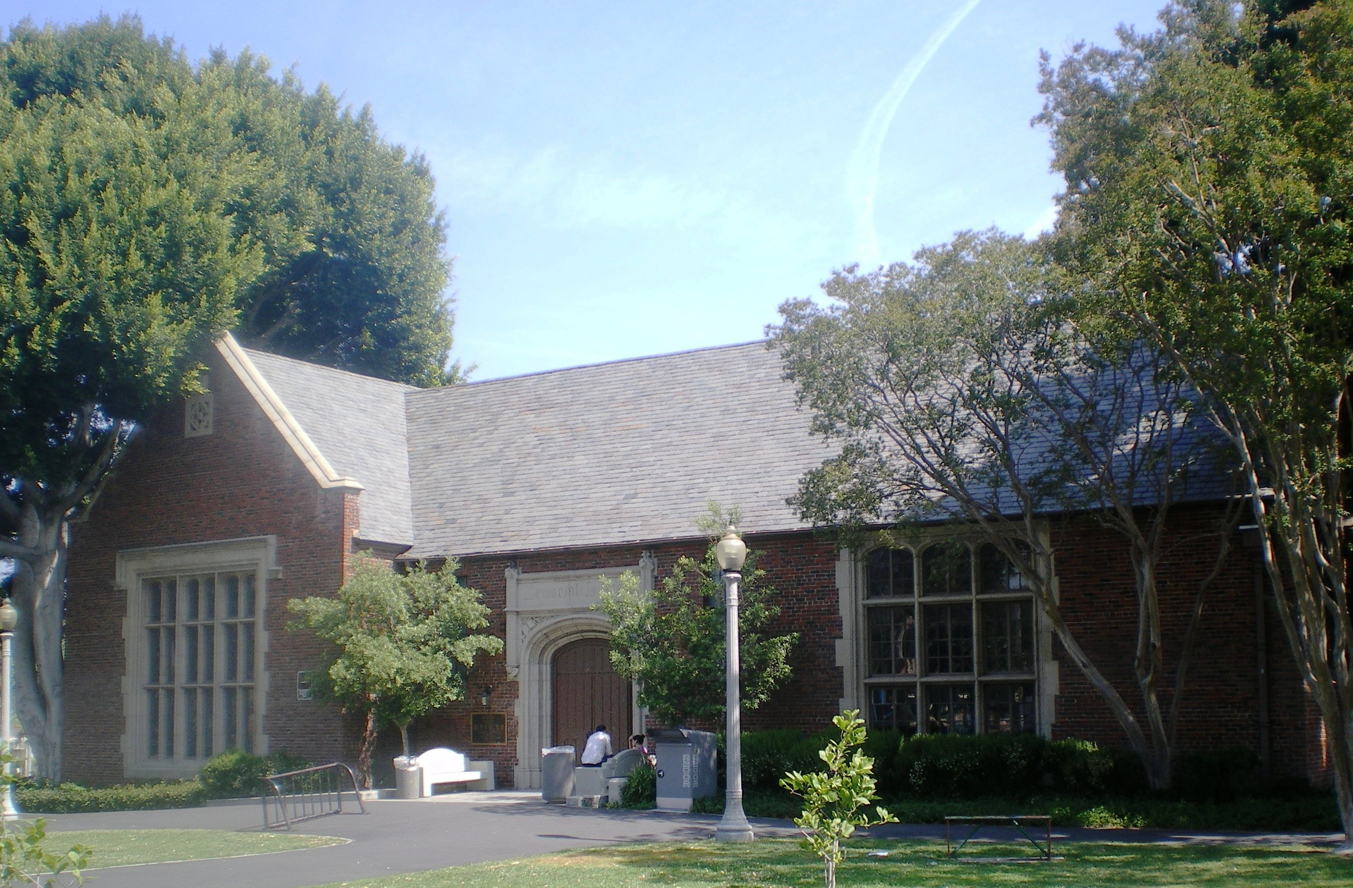 Memorial Branch Library, 4645 W. Olympic Blvd. near Robertson (southern Mid-Wilshire area), Los Angeles, California. Los Angeles Historic-Cultural Monument & on the National Register of Historic Places.